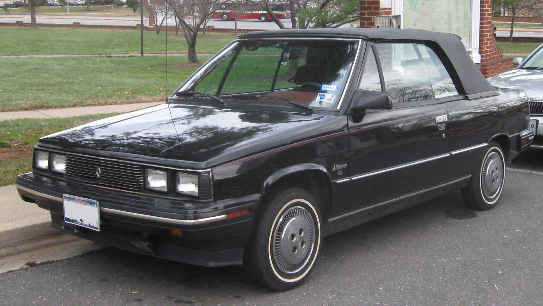 1985 Renault Alliance photographed in College Park, Maryland, USA.